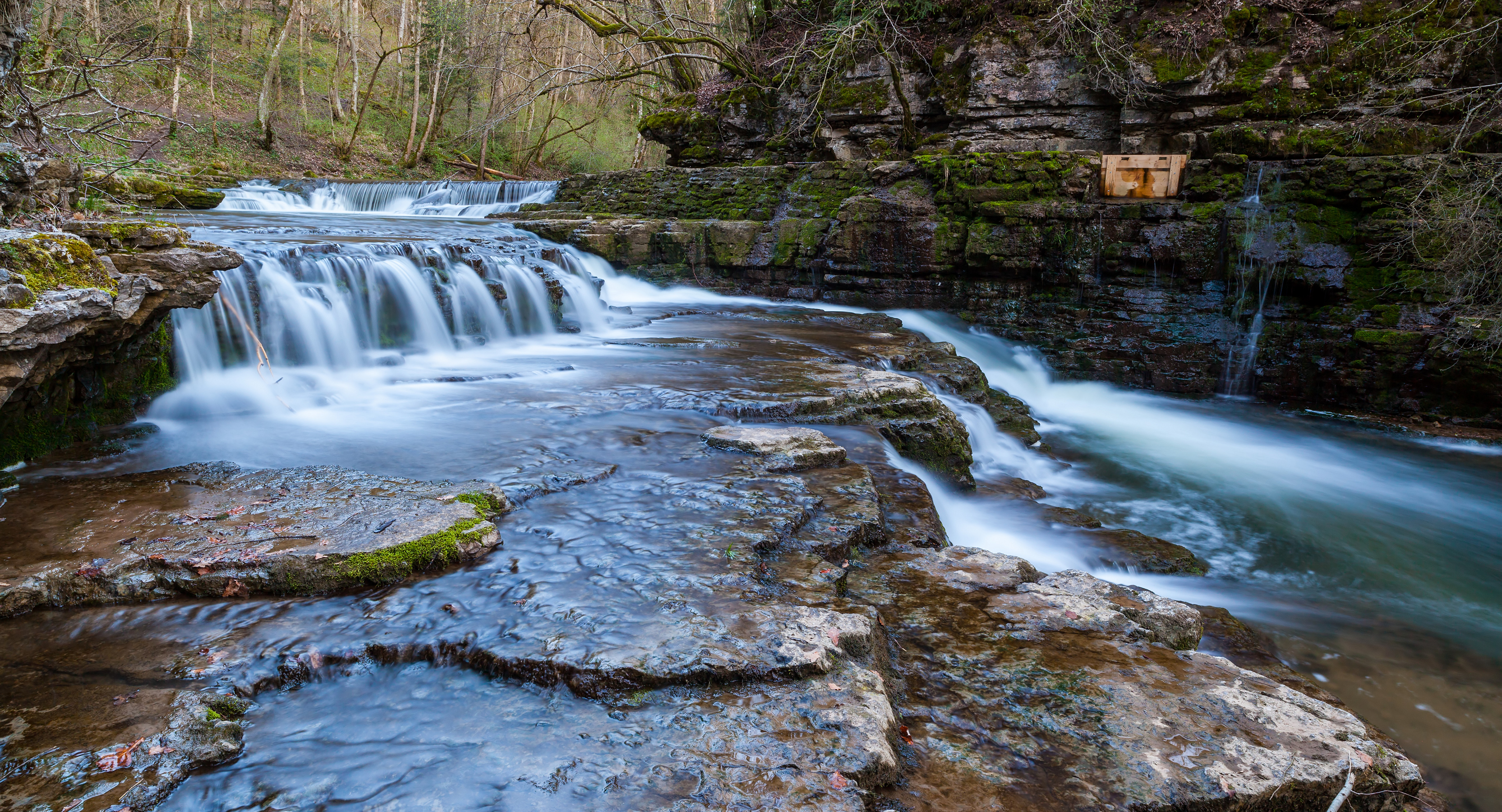 Schlichemklamm between Dietingen and Epfendorf